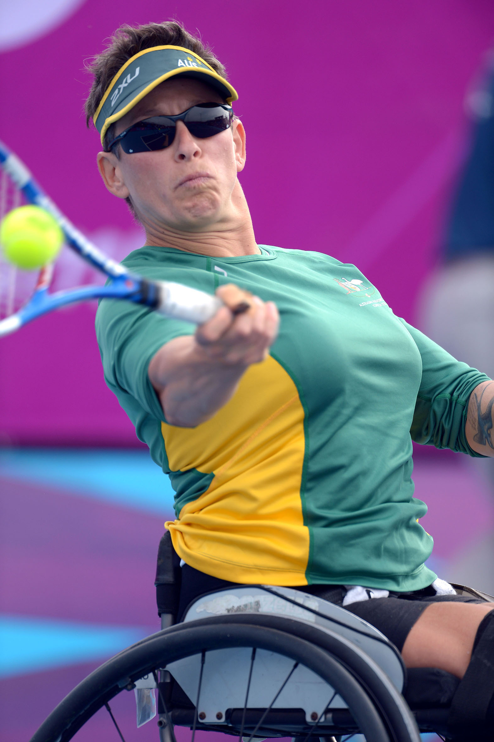 Photograph of Australian Paralympic team member Daniela Di Toro at the 2012 Summer Paralympic Games in London